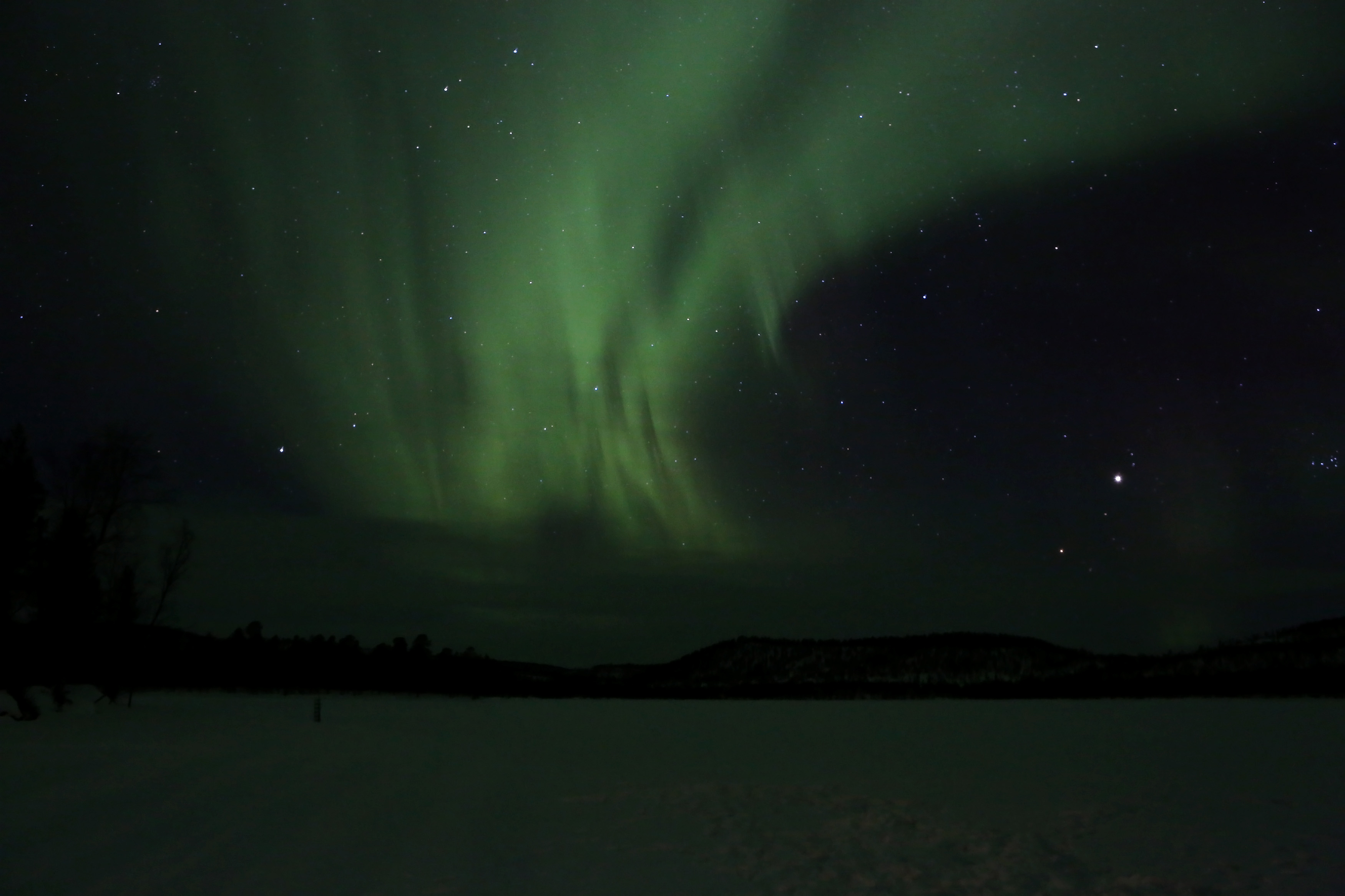 Aurora borealis above Ukonjärvi/Lake Inari, Inari, Finland.